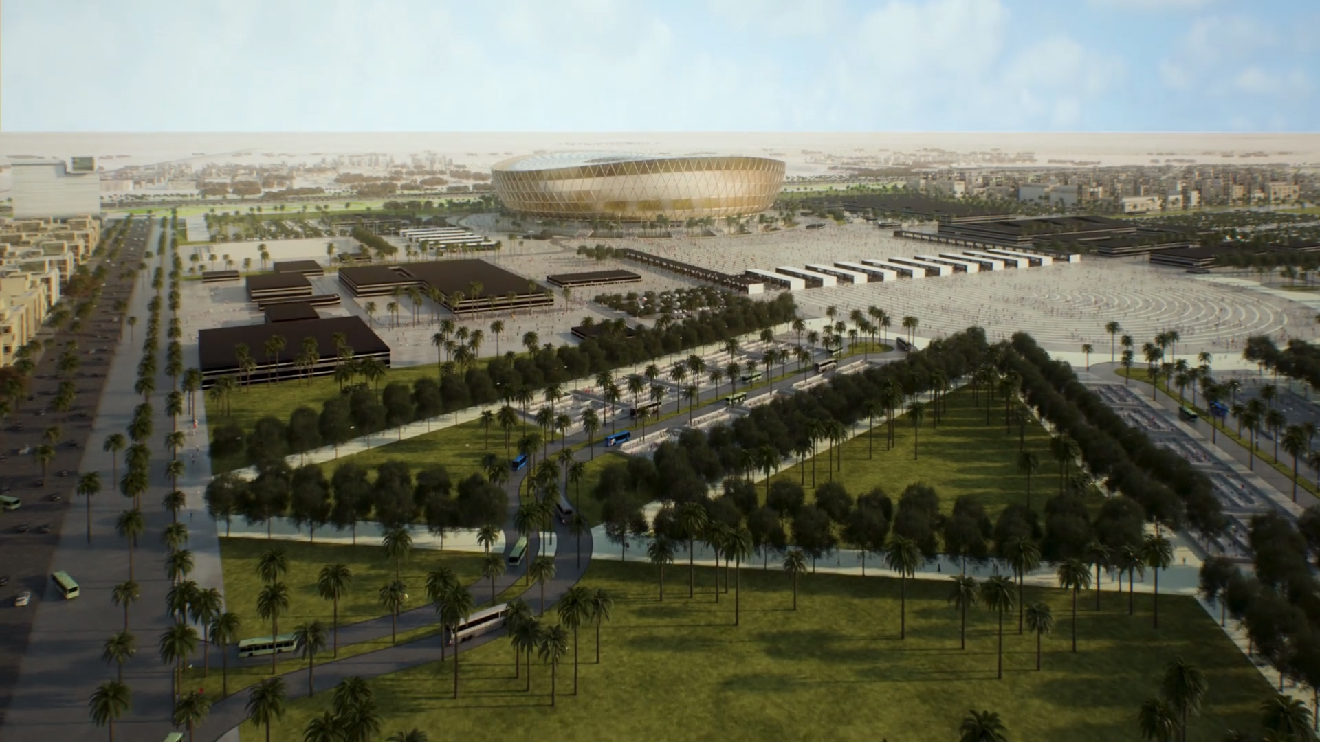 Rendering of Lusail Stadium, a venue of the 2022 FIFA World Cup, upon completion.